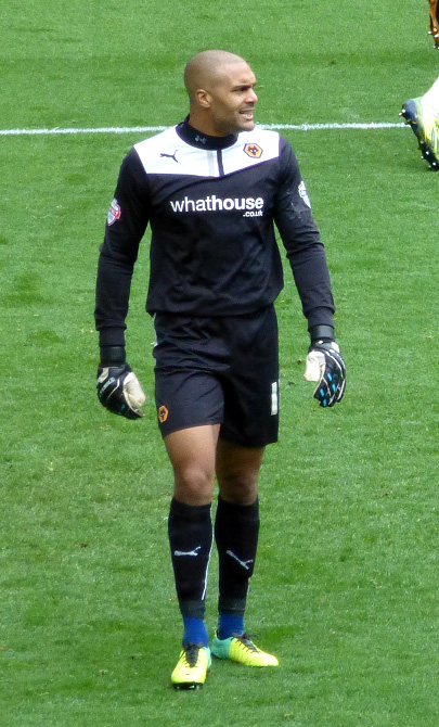 Carl Ikeme - Wolverhampton Wanderers vs Peterborough United (05/04/2014)